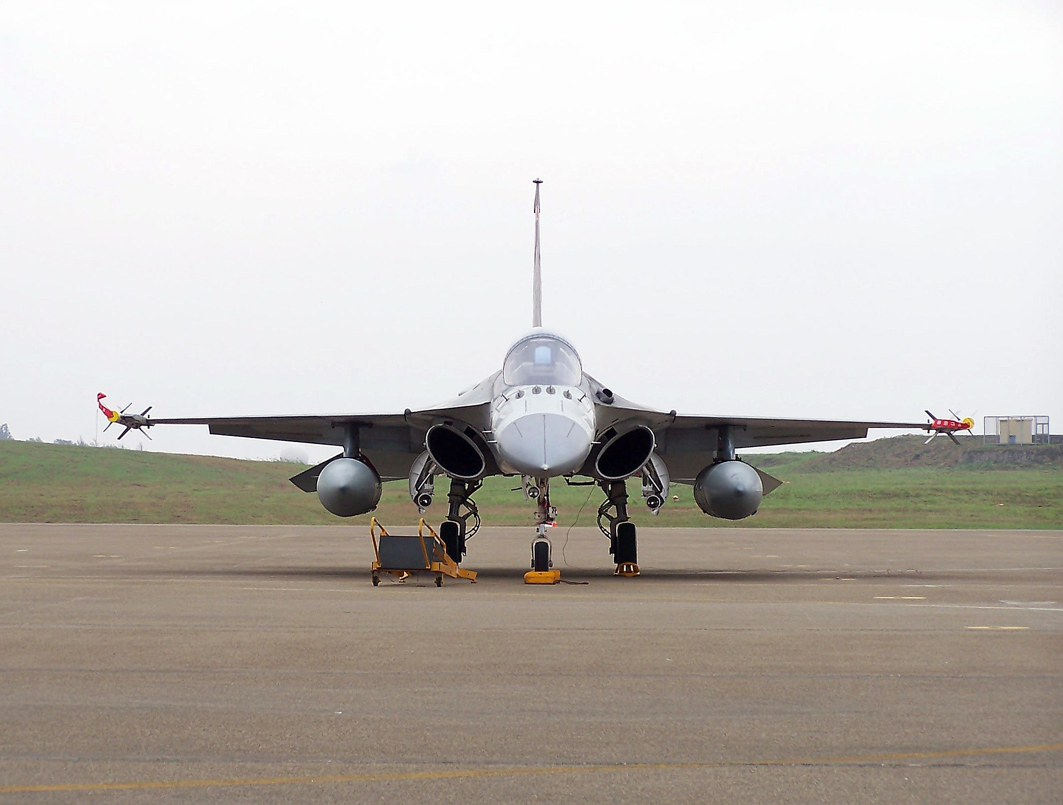 IDF F-CK-1A Front View.